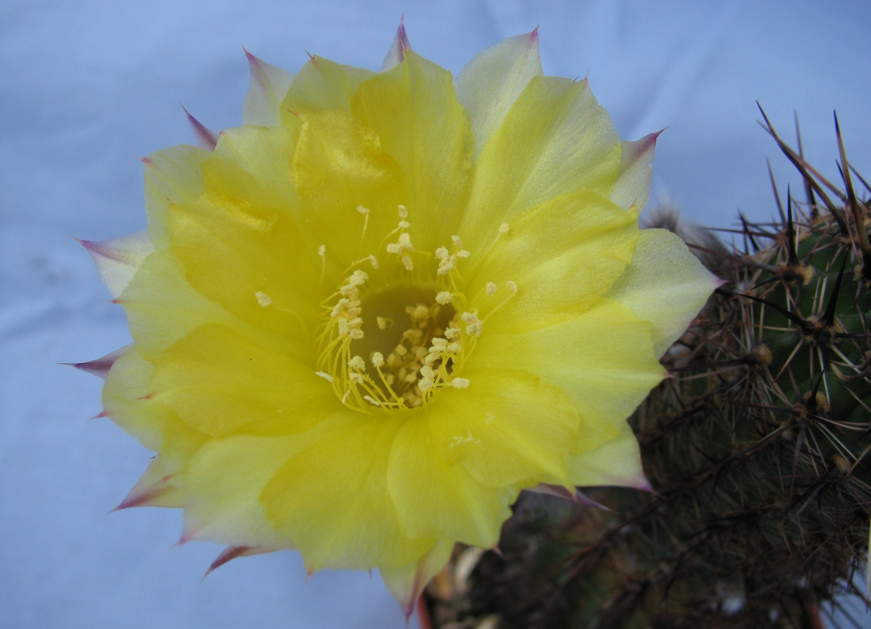 Echinopsis aurea